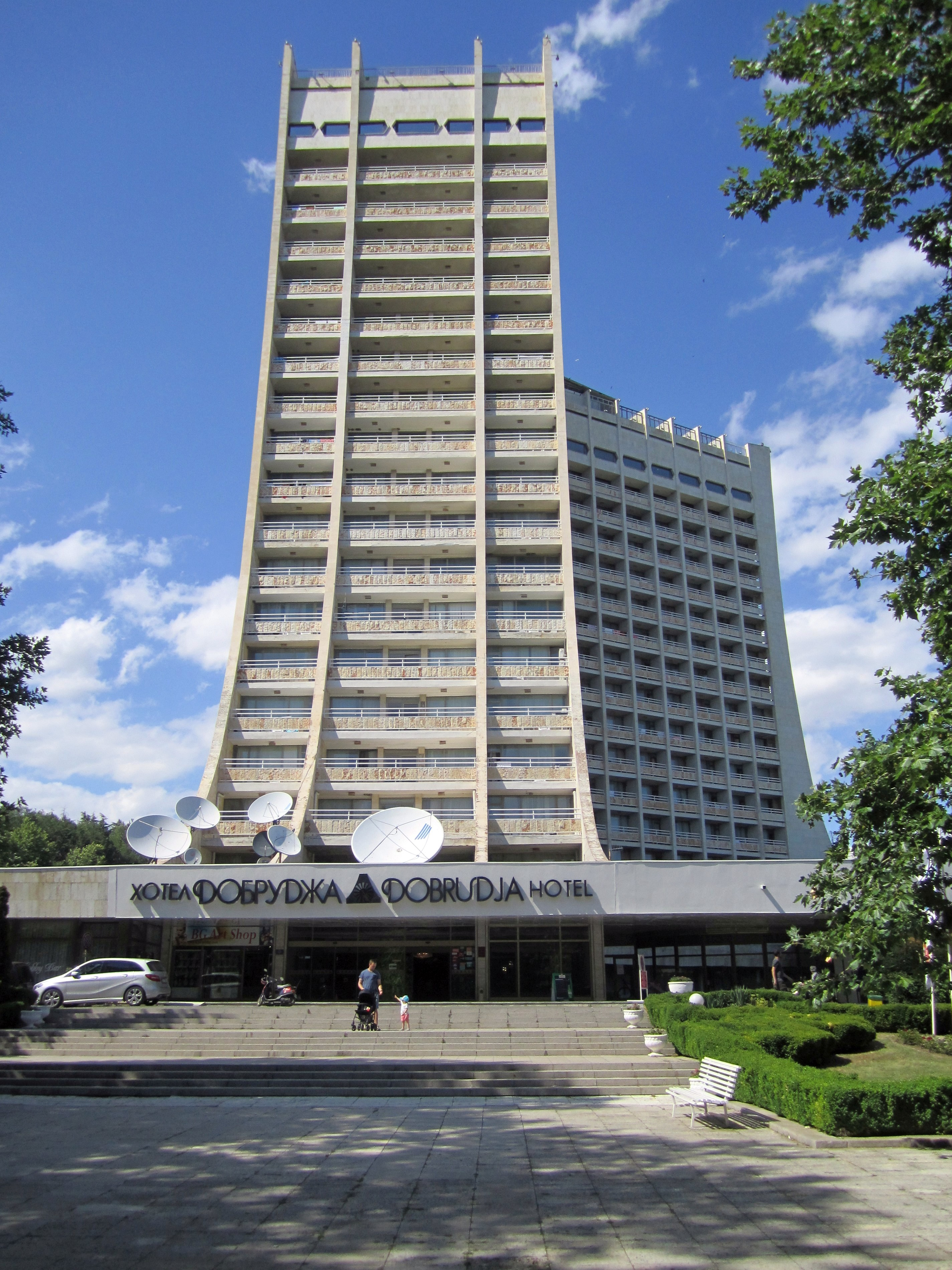 Hotel "Dobrudja". Albena, Bulgaria.